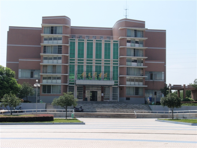 The Jianfan Library in Ningxiang No. 1 High School. It is named after educator Zhu Jianfan.